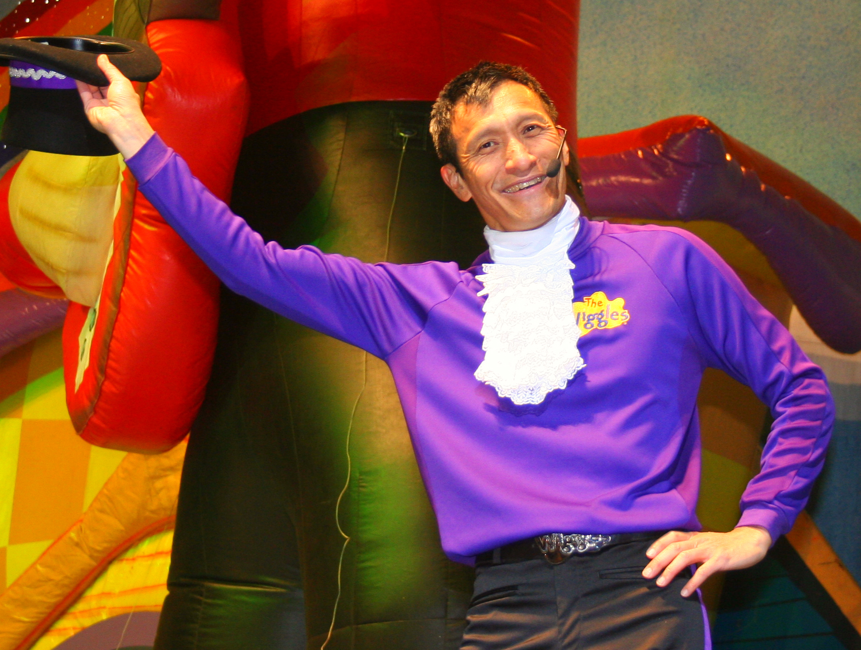 Jeff Fatt of The Wiggles Live @ the MCI Center - Nov. 8, 2007 Photo taken by Anthony Arambula